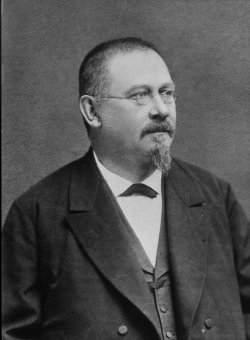 Vojtěch Náprstek, Czech explorer.